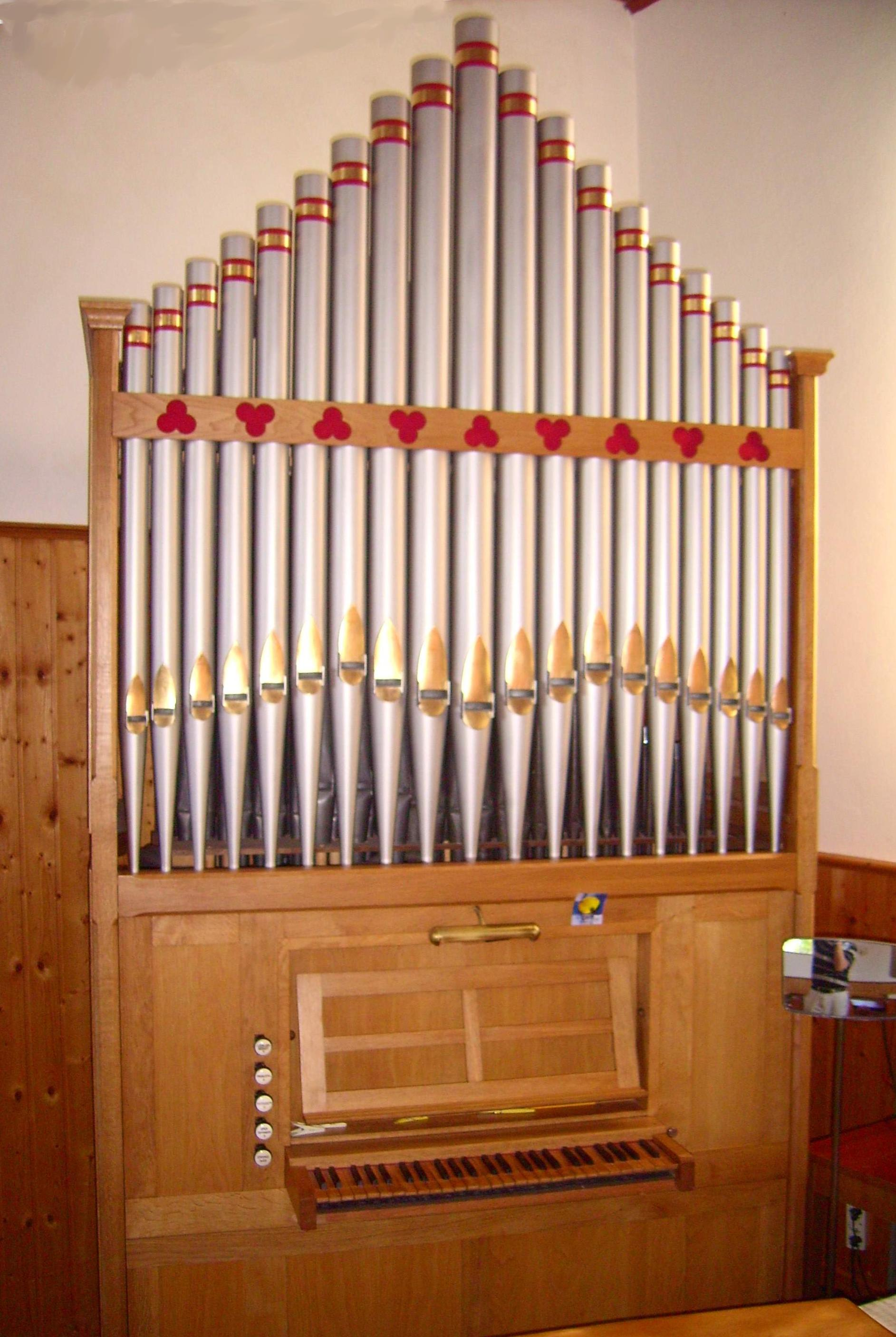 Organ Neermoor, altreformierte Kirche